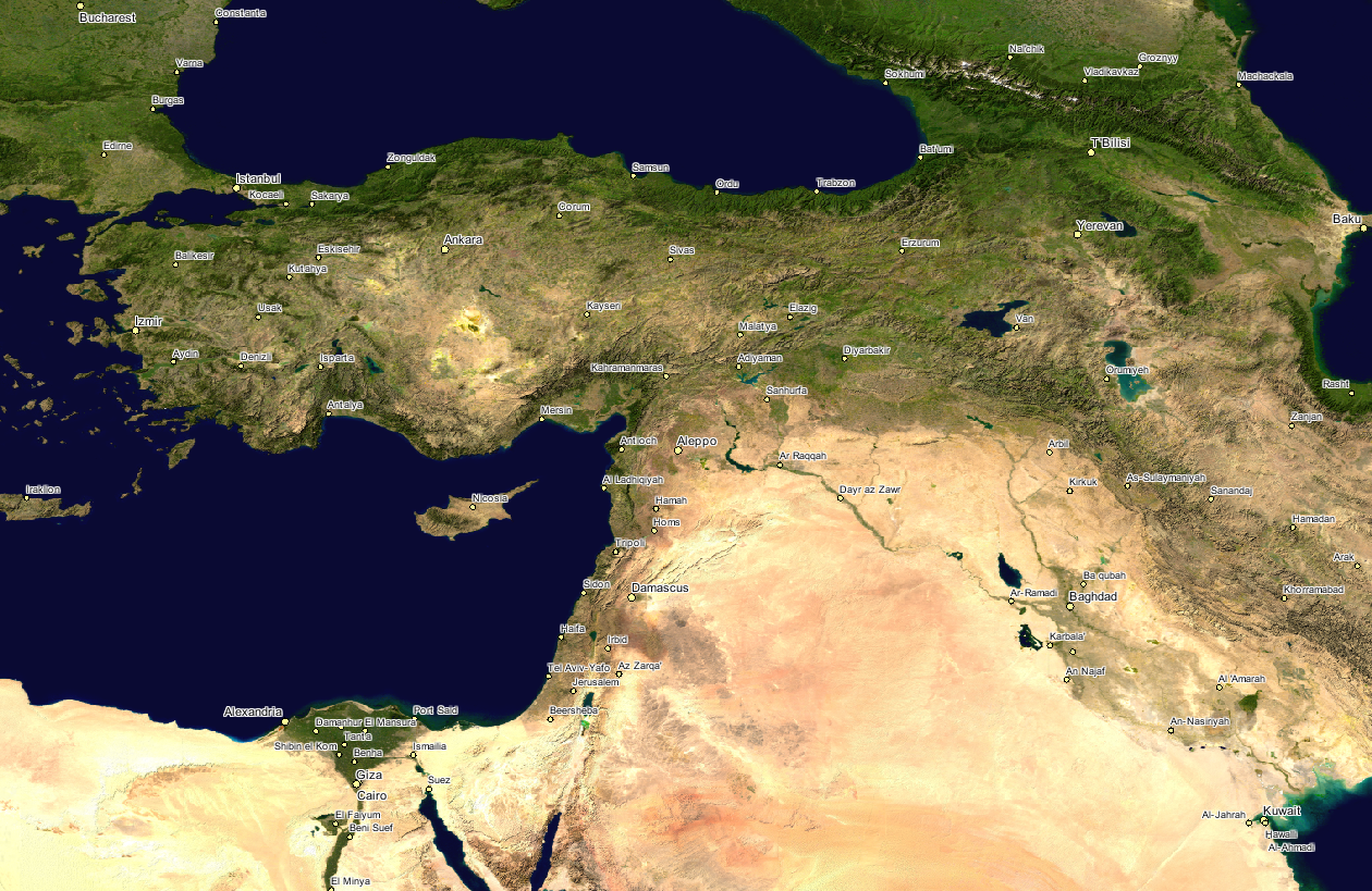 NASA Image; cropped to show the Ottoman Empire during 1900. Image Service: GLOBE_at_Night Access Restrictions: None Layer: GLOBE at Night Observations Feature Type: Point Layer: GLOBE at Night Observations (alternate color) Feature Type: Point Layer: Cities Feature Type: Point Layer: Cities Note: Image is cropped from the database; "Globe At Night", without the markers, and boundaries.